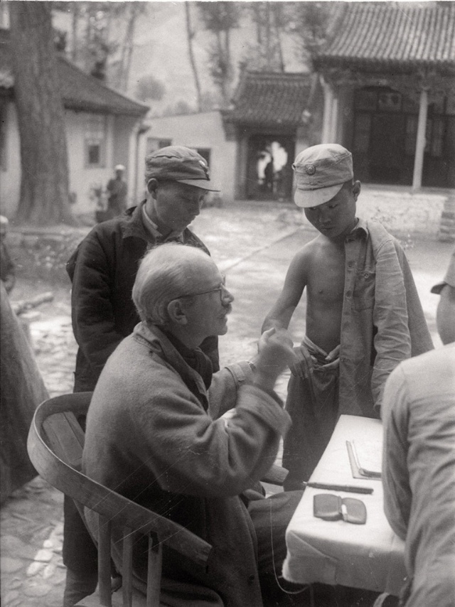 中文（香港）: Bethune and a patient